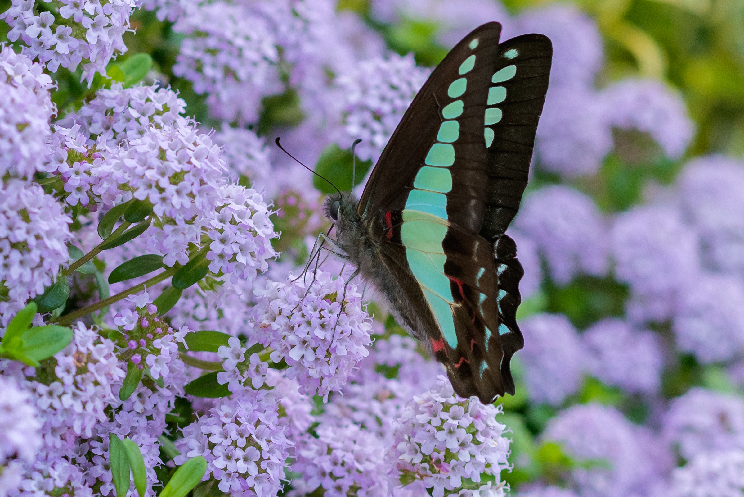 This is the Graphium sarpedon (Common Bluebottle) found in Tokyo, in Odaiba.